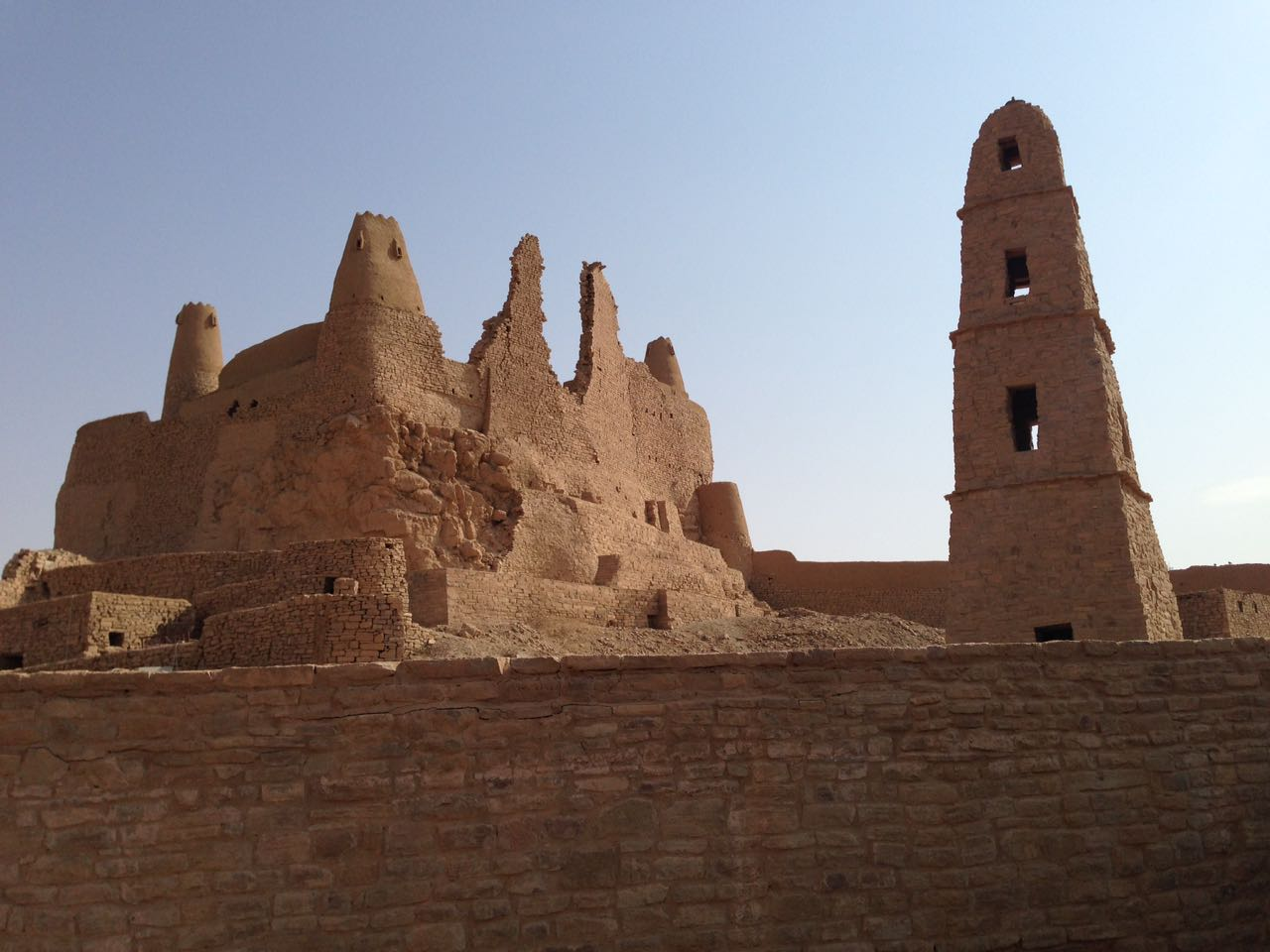 Marid Castle and Omar Mosque